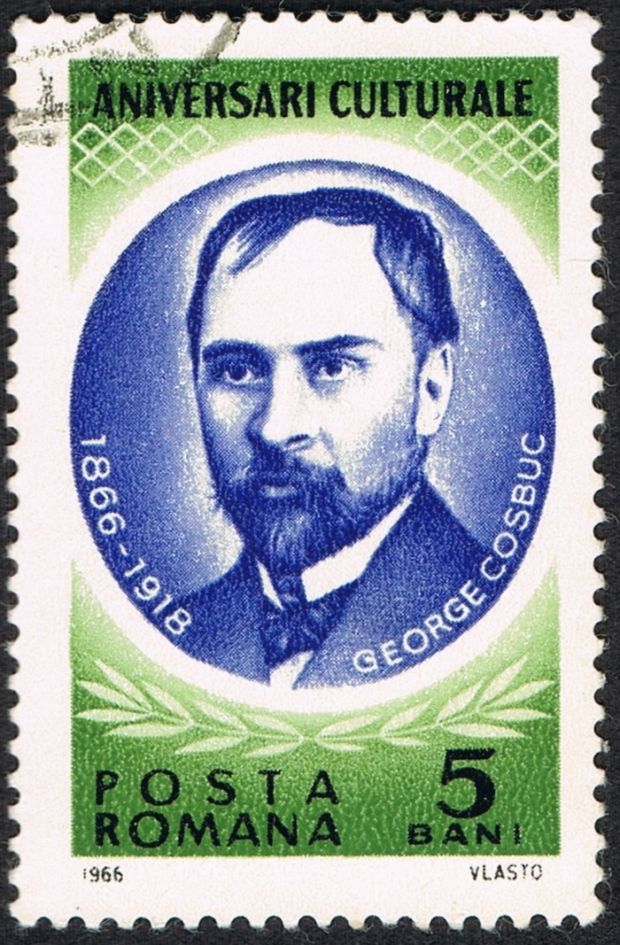 scanned stamp from Rumanian post (Posta Romana). Georghe Cosbuc, Poet and Writer (1866 - 1918), Date: 1966-09-12 Michel stamp catalogue (East-Europe part 4) number: 2535 2000000 printed stamps